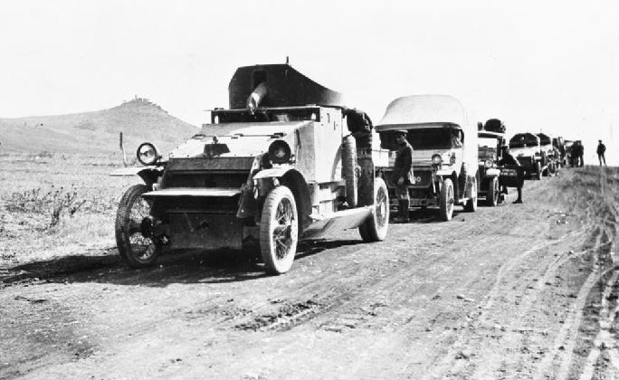 Description: Lanchester, 4 x 2, Armoured Car (Admiralty turreted pattern).